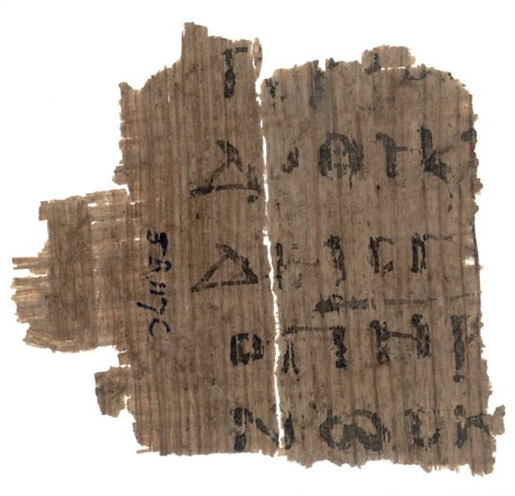 Papyrus 70, P. Oxy 2384